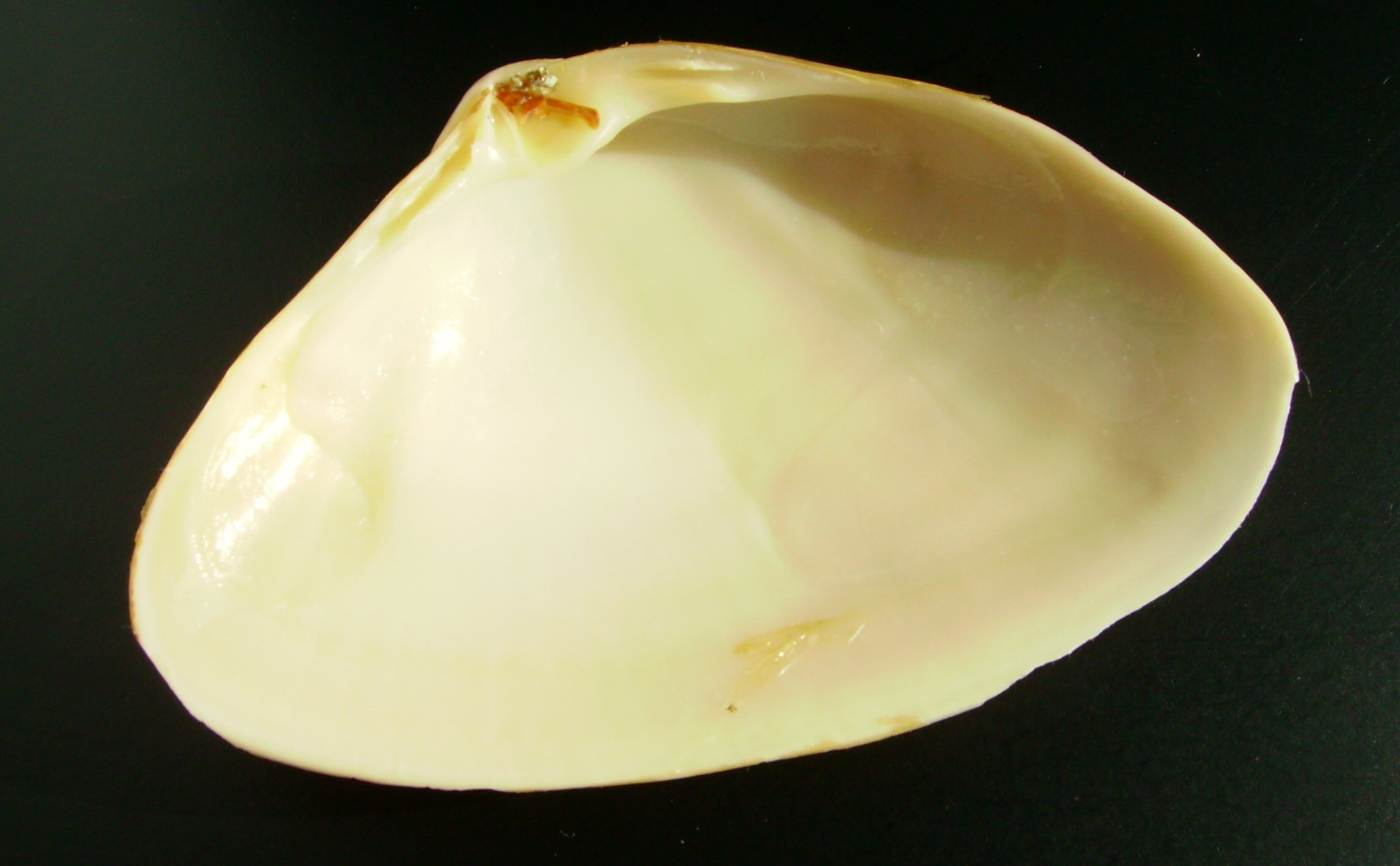 Longimactra elongata (inside view) from Northland east coast, New Zealand. This work has been released into the public domain by its author, Graham Bould. This applies worldwide. In some countries this may not be legally possible; if so: Graham Bould grants anyone the right to use this work for any purpose, without any conditions, unless such conditions are required by law.